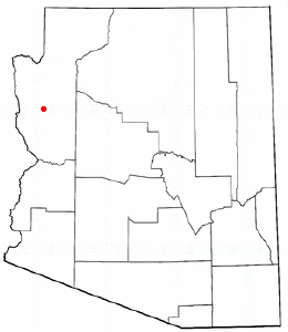 Locator map of Kingman, county seat of Mohave County, Arizona.